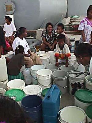 Ebeye, Marshall Islands, April 3, 1998 -- Family and friends on the Marshall Islands work together to overcome the effects of the drought brought on by El Nino by waiting together for water distribution. Photo by Angel Santiago/FEMA News Photo